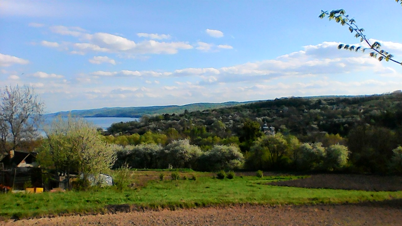 View of village Grigorivka